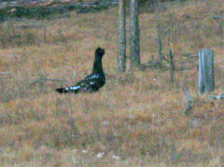 Black-billed Capercaillie, Lake Khösvgöl, Mongolia